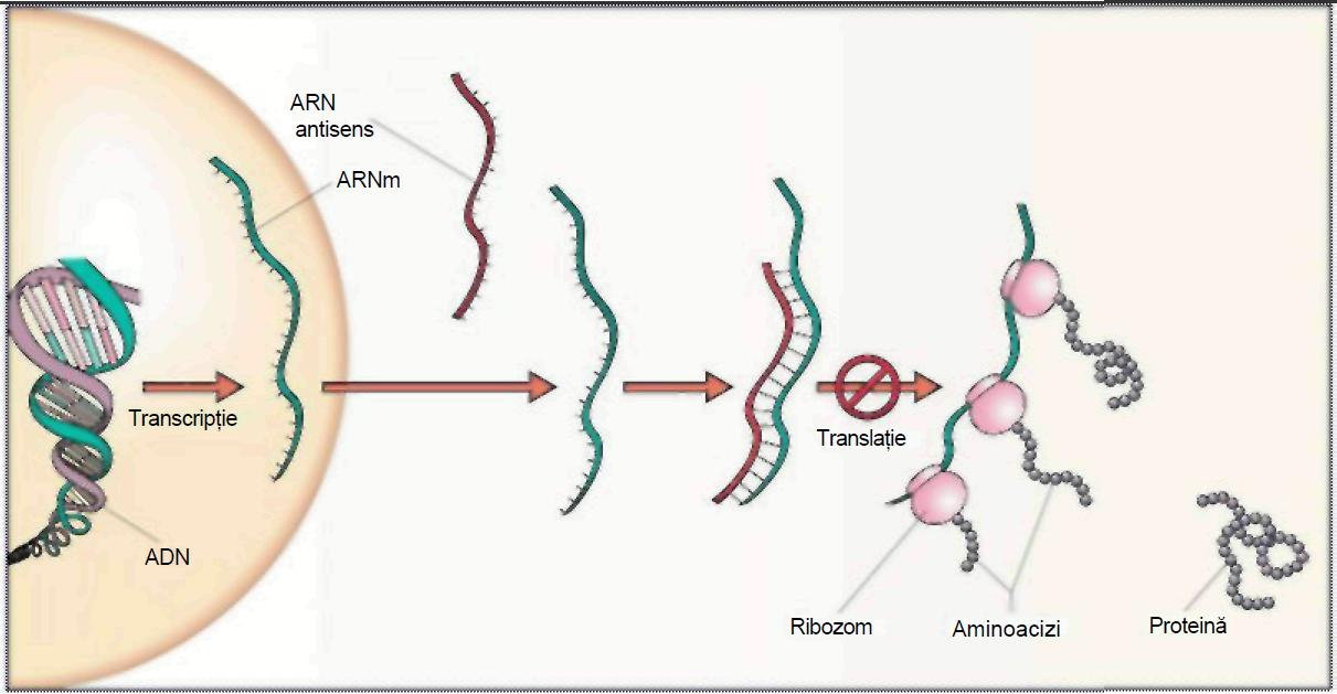 Antisense RNA